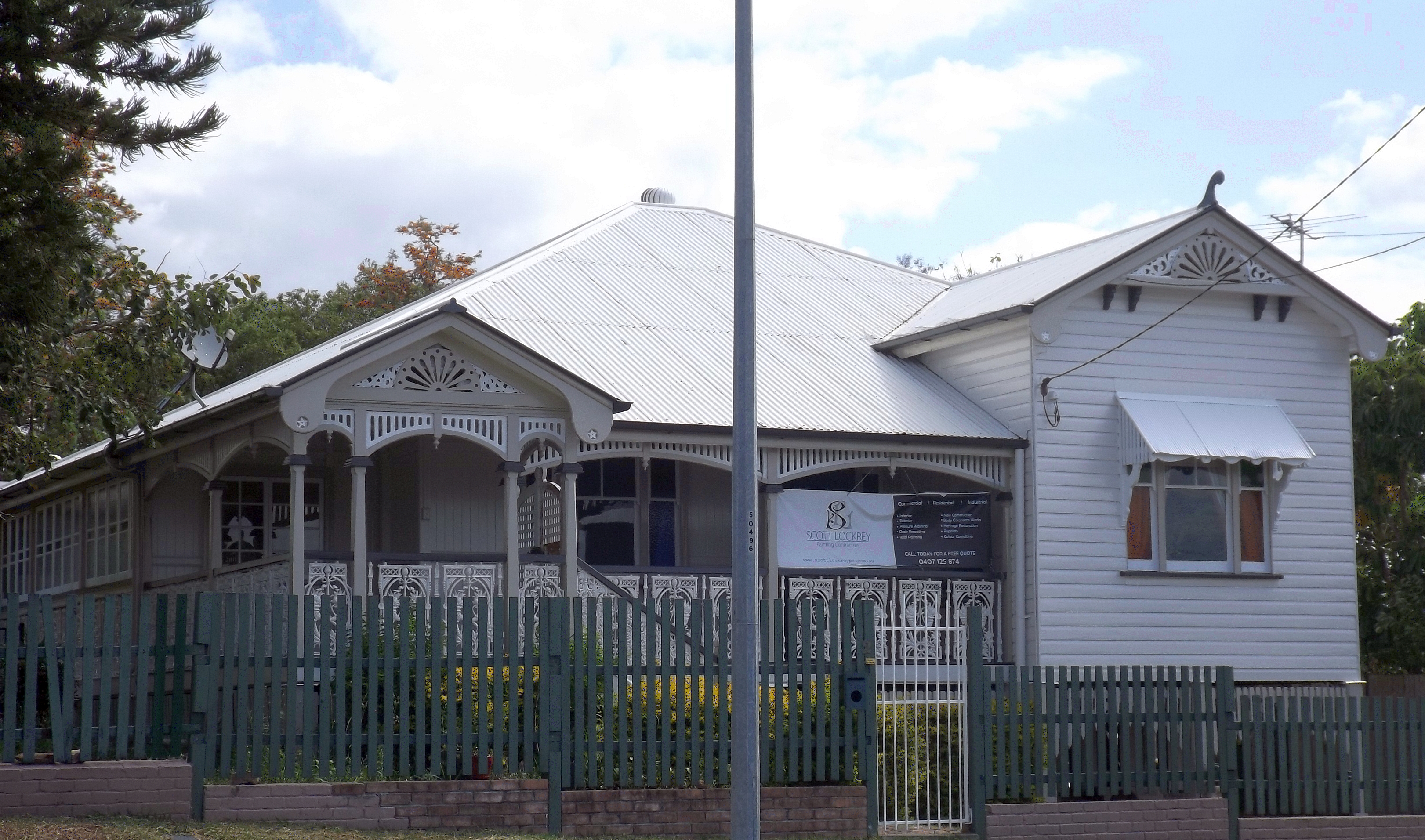 Photo of Idavine residence from opposite side of street at West Ipswich, Queensland, Australia.